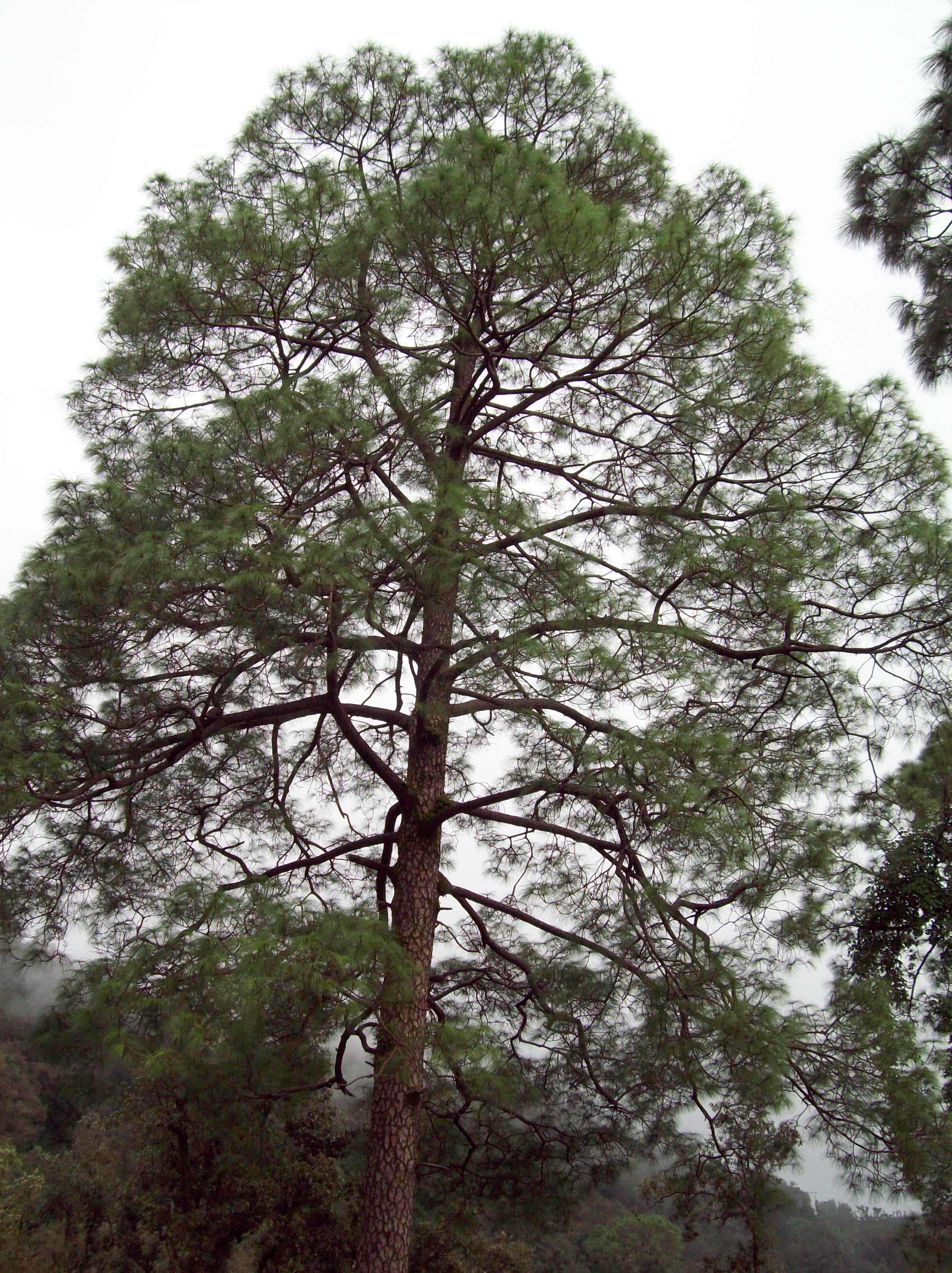 Pinus roxburghii, Uttarakhand, India